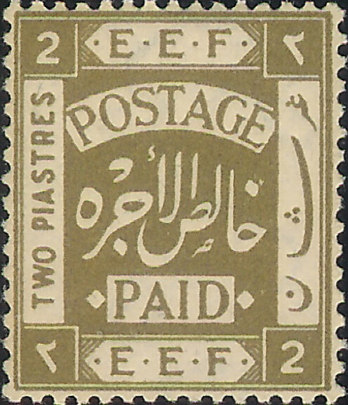 Israel forerunners - Mandate - Typographed - 04